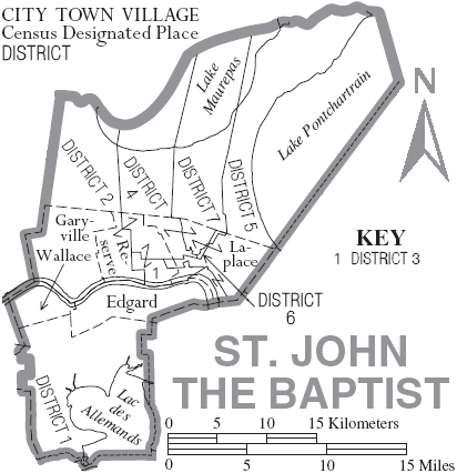 Map of St. John the Baptist Parish, Louisiana, United States with municipal and district boundaries